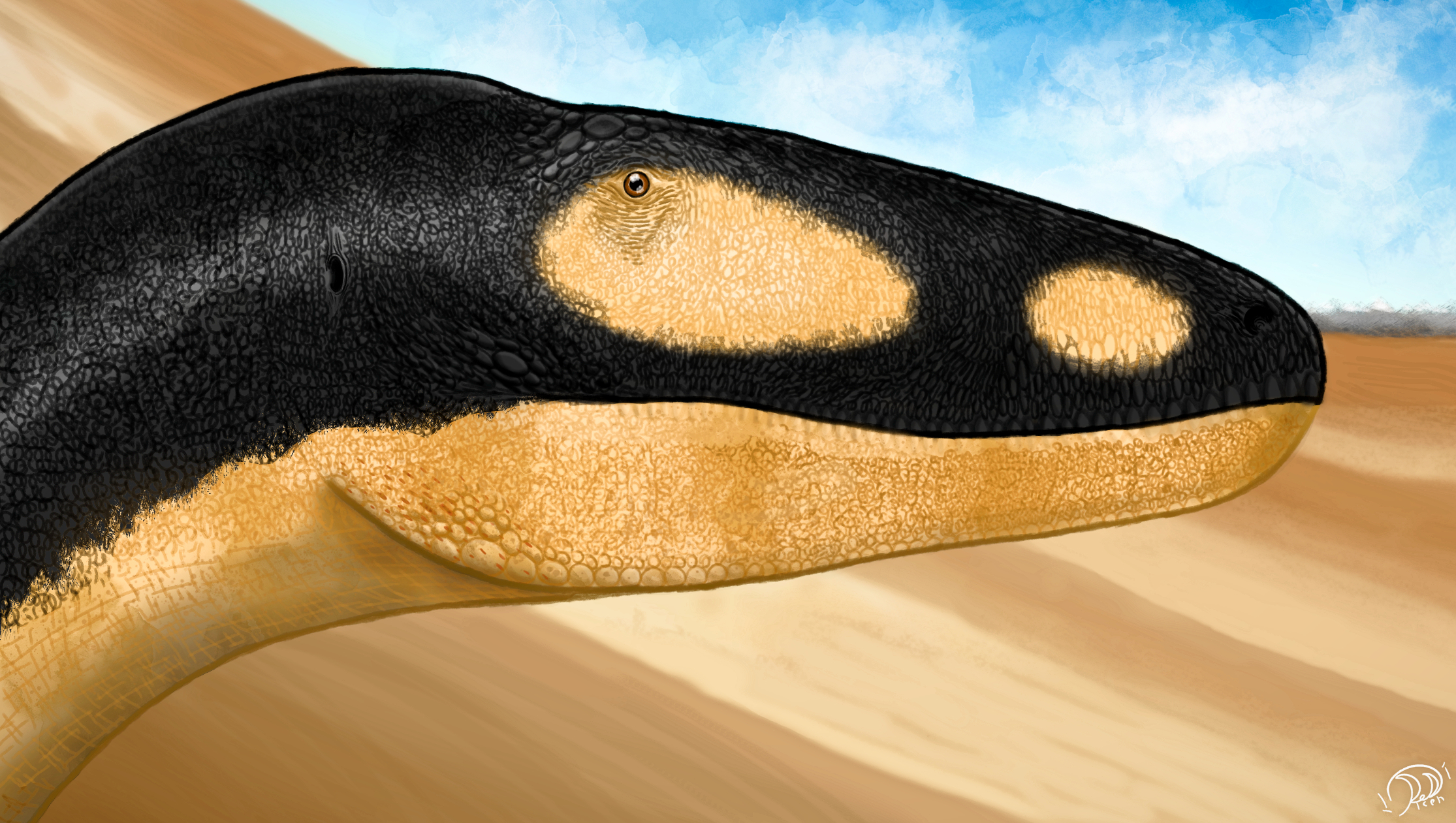 Digital painting of the tyrannosauroid theropod Alectrosaurus olseni.